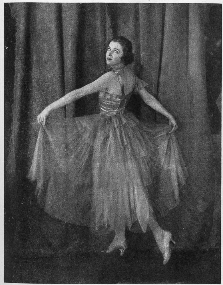 Irene Castle (Mrs. Vernon Castle) in Ball Costume, from Woman as Decoration by Emily Burbank, New York, Dodd, Mead and Company, 1917. "Mrs. Vernon Castle who set to-day's fashion in outline of costume and short hair for the young woman of America. For this reason and because Mrs. Castle has form to a superlative degree (correct carriage of the body) and the clothes sense (knowledge of what she can wear and how to wear it) we have selected her to illustrate several types of costumes, characteristic of 1916 and 1917. "Another reason for asking Mrs. Castle to illustrate our text is, that what Mrs. Castle's professional dancing has done to develop and perfect her natural instinct for line, the normal exercise of going about one's tasks and diversions can do for any young woman, provided she keep in mind correct carriage of body when in action or repose."